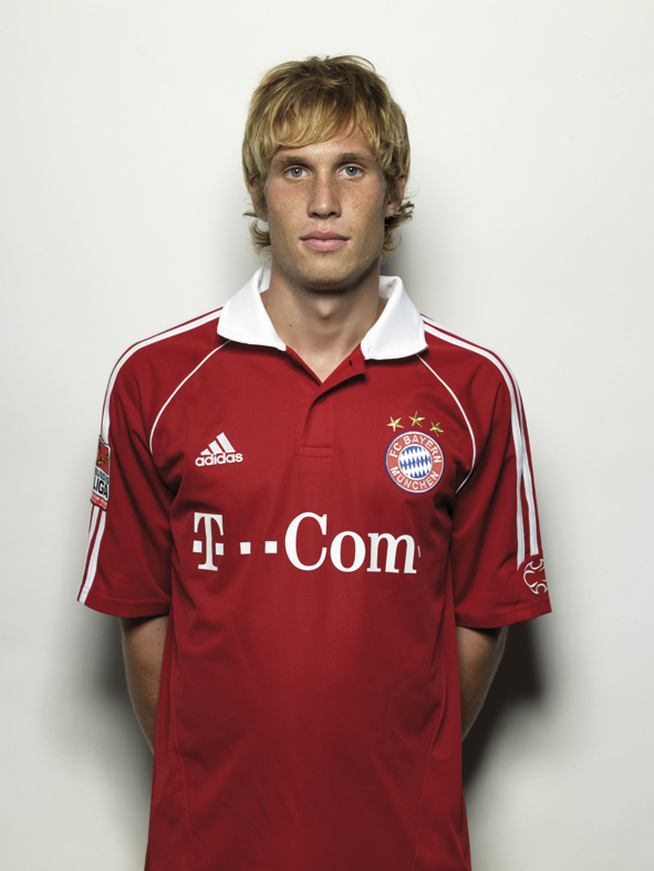 I emailed Bayern Munich asking if they can give a free Andreas Ottl photo under GNU Free Documentation License. They replied by giving this exact photo. Kingjeff 17:08, 14 November 2006 (UTC)